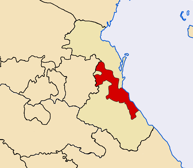 Location map of the Kumyks.